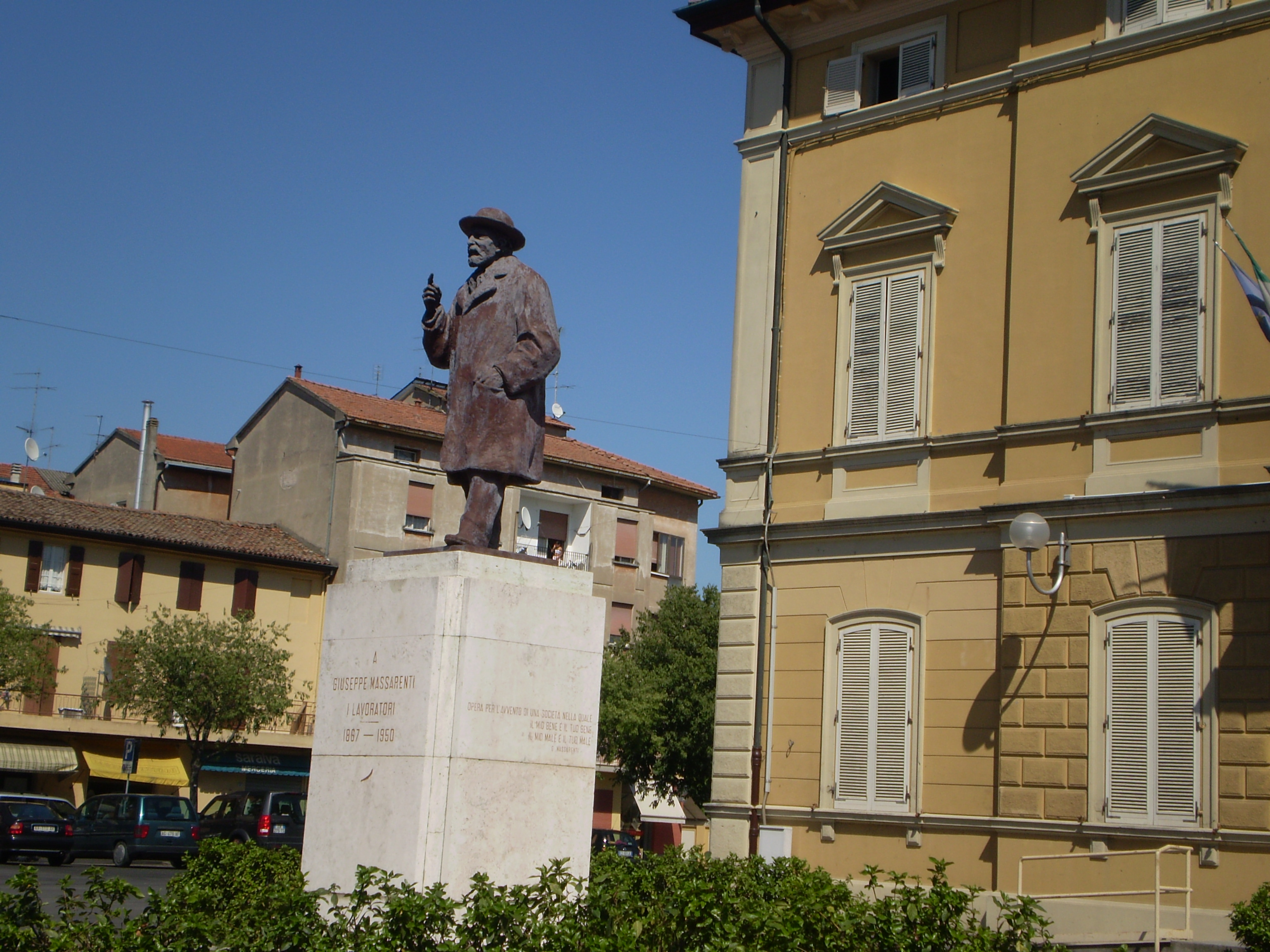 Giuseppe Massarenti Statue